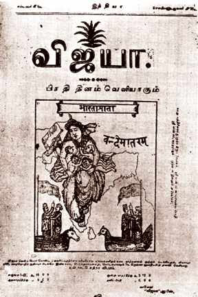 Cover page of the 1909 magazine Vijaya, published first from Madras and then from Pondicherry, displaying Vande Mataram slogan. Source: Downloaded from this web site by Fowler&fowler.